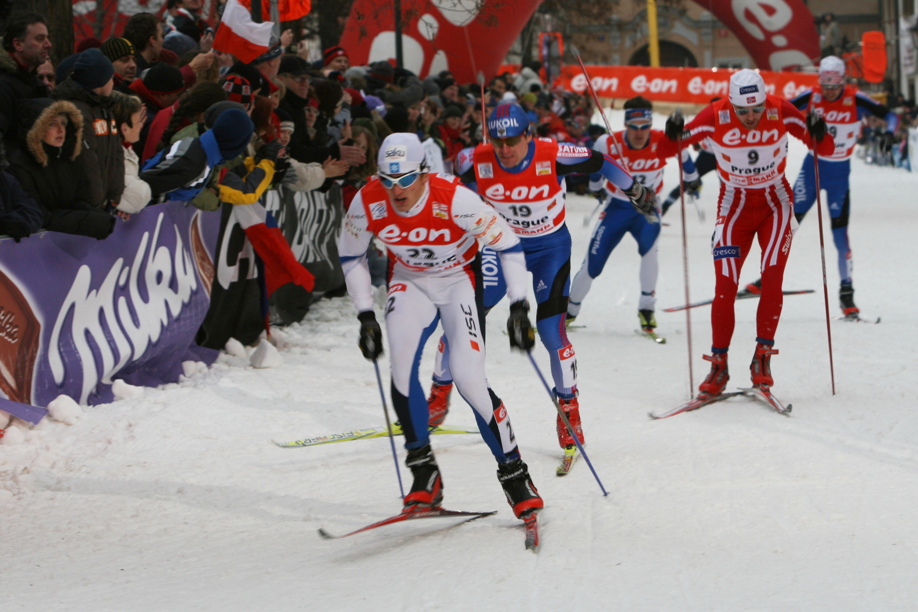 Timo Simonlatser #22 leading the group in the quarterfinals of the Tour de Ski in Prague